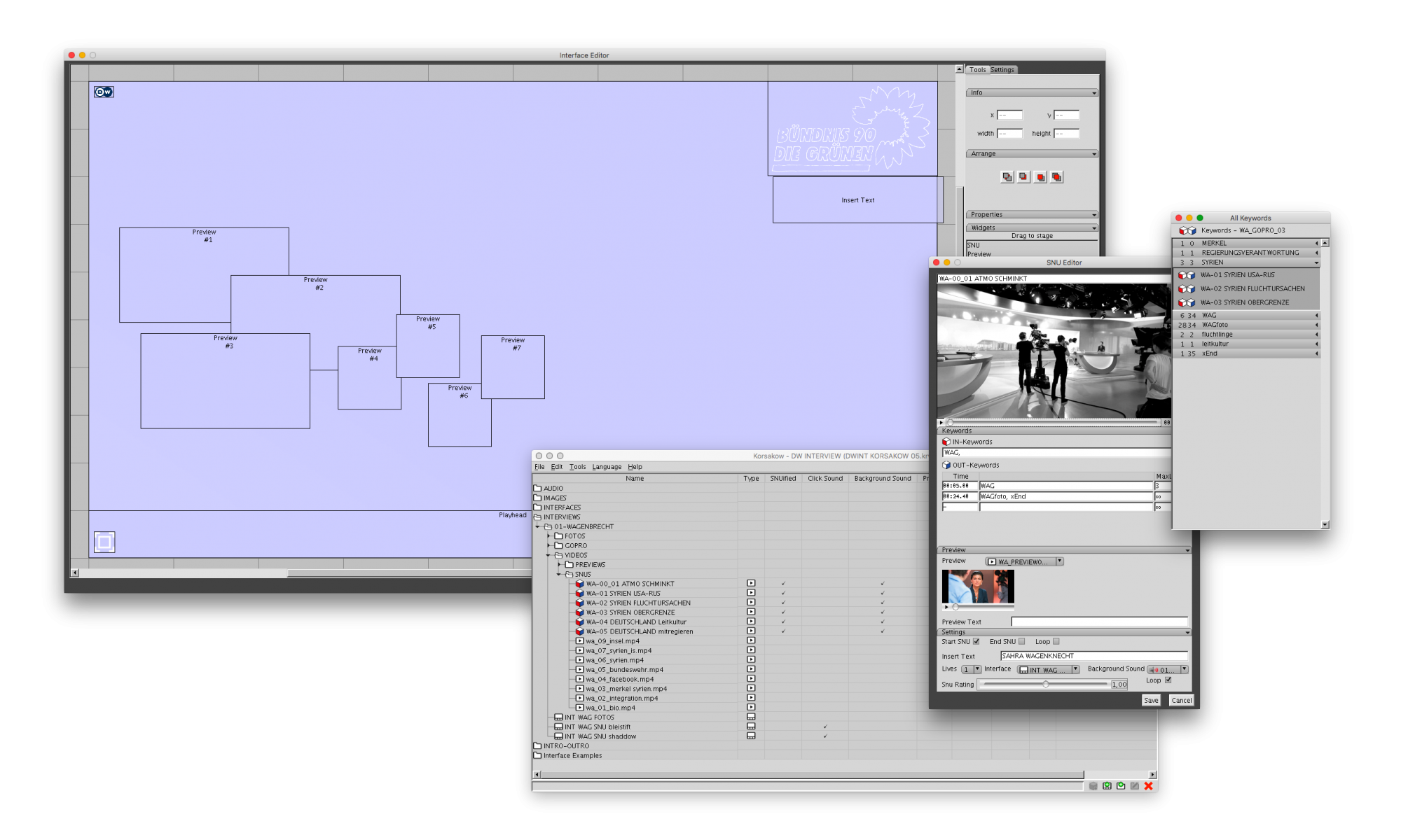 Screenshot of Korsakow 6 Software